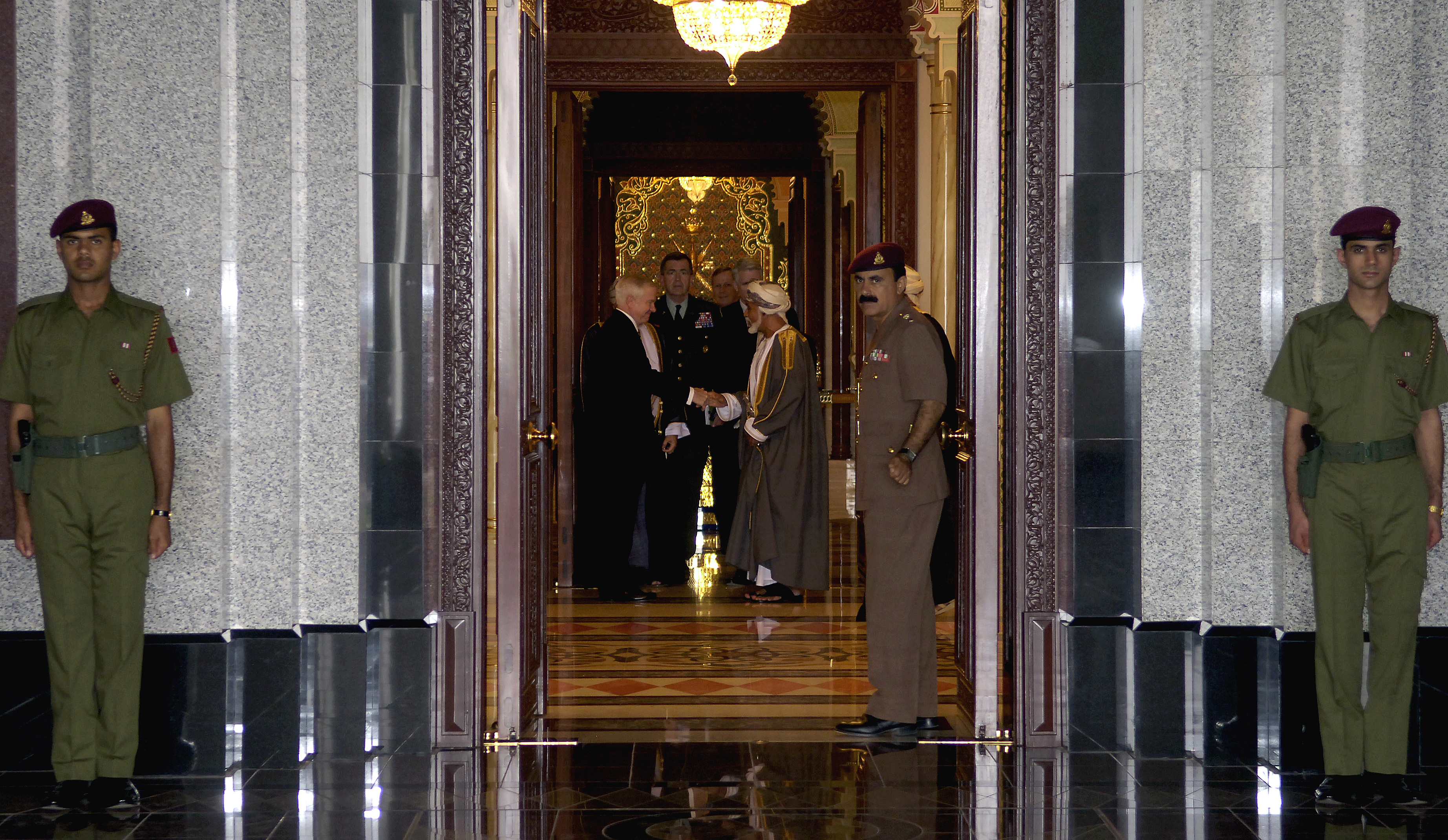 Omani Sultan Qaboos bin Sa'id, right, bids farewell to U.S. Defense Secretary Robert M. Gates as he departs the Bait Al-Barakah Palace outside Muscat, Oman, April. 5, 2008, after a meeting on bilateral defense issues.